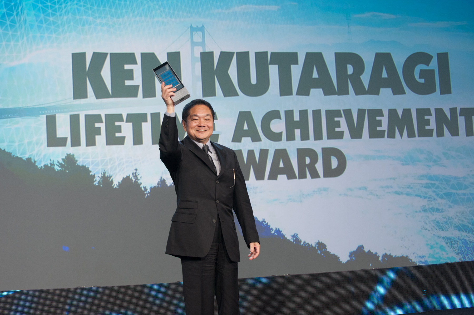 Ken Kutaragi receiving a Lifetime Achievement Award at the Game Developers Choice Awards 2014